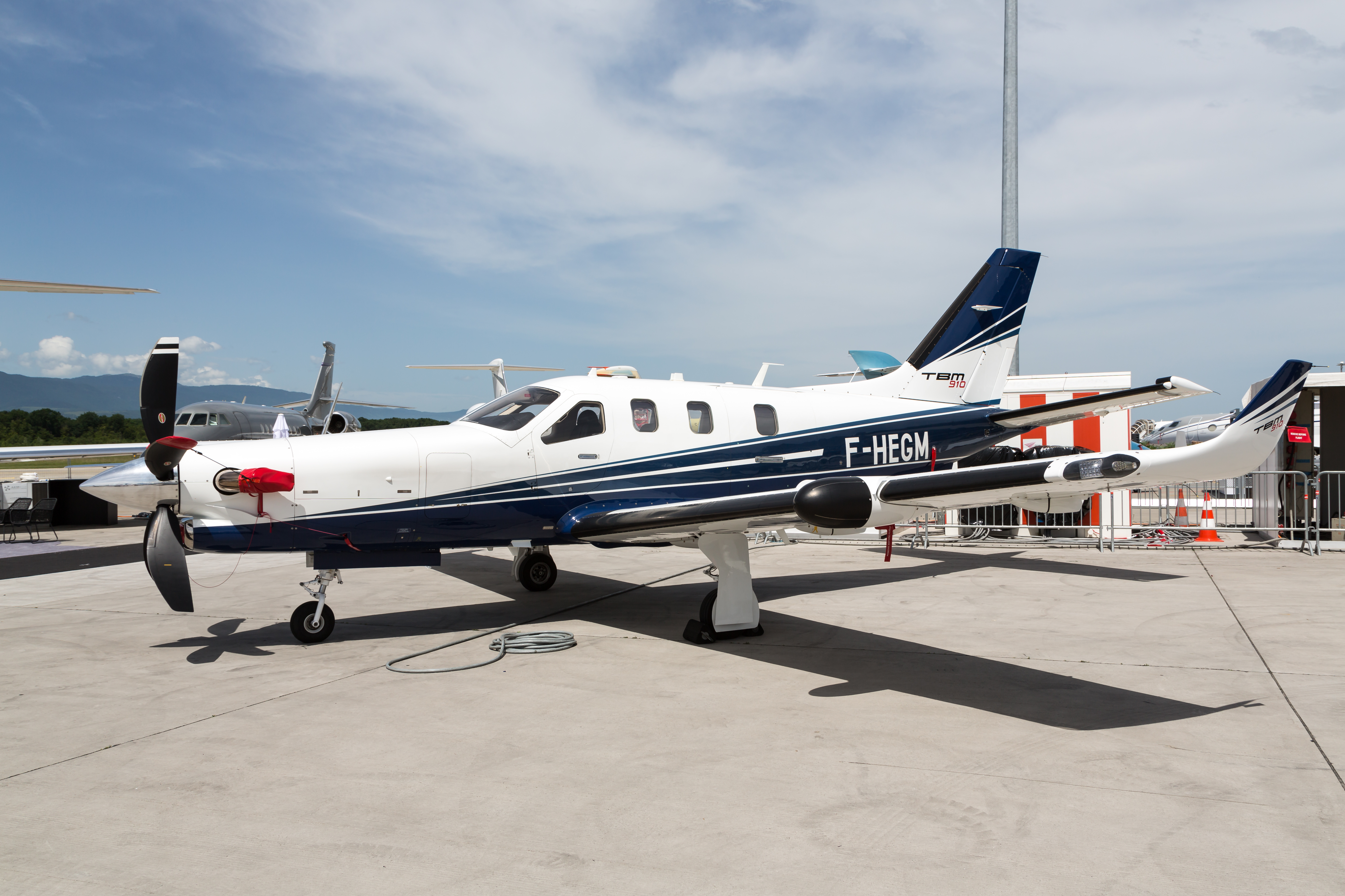 Static display preview, EBACE 2018